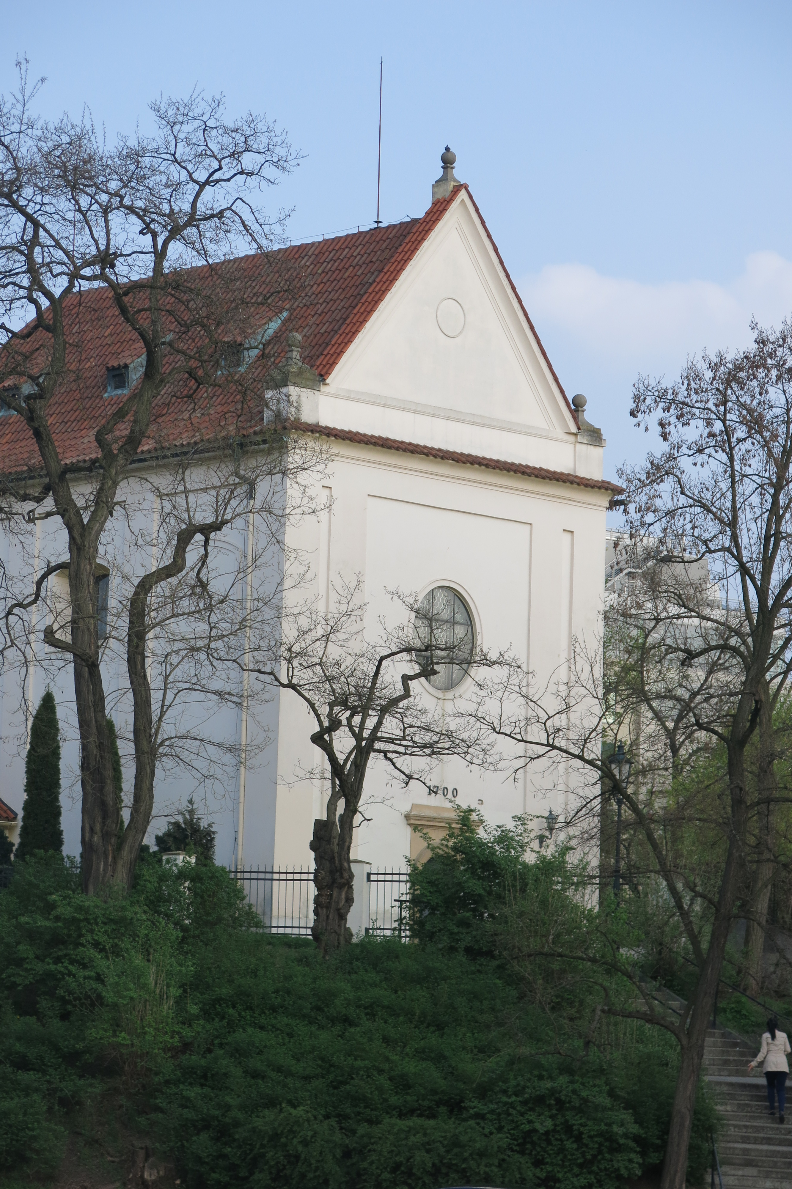 Church of Saint Pancratius, Prague - Pankrác